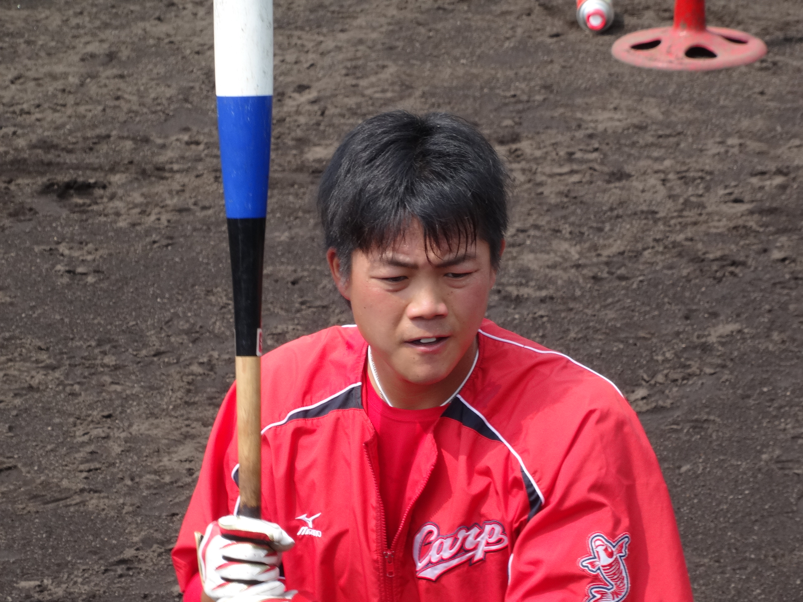 Kosuke Nakamura, catcher of the Hiroshima Toyo Carp, at Hanshin Naruohama Baseball Ground.